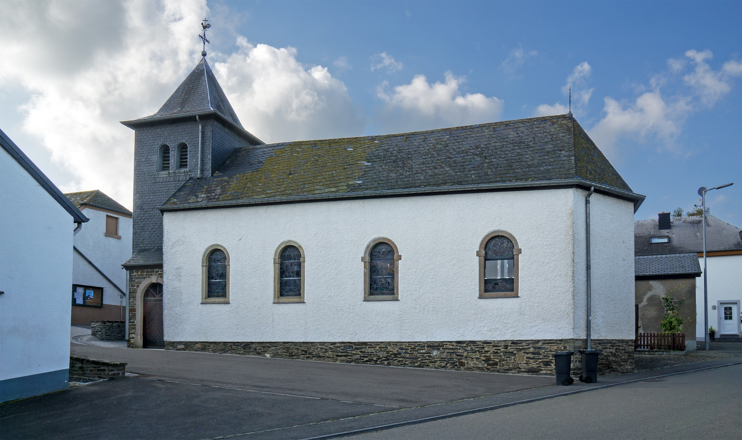 Chapel of Rumlange